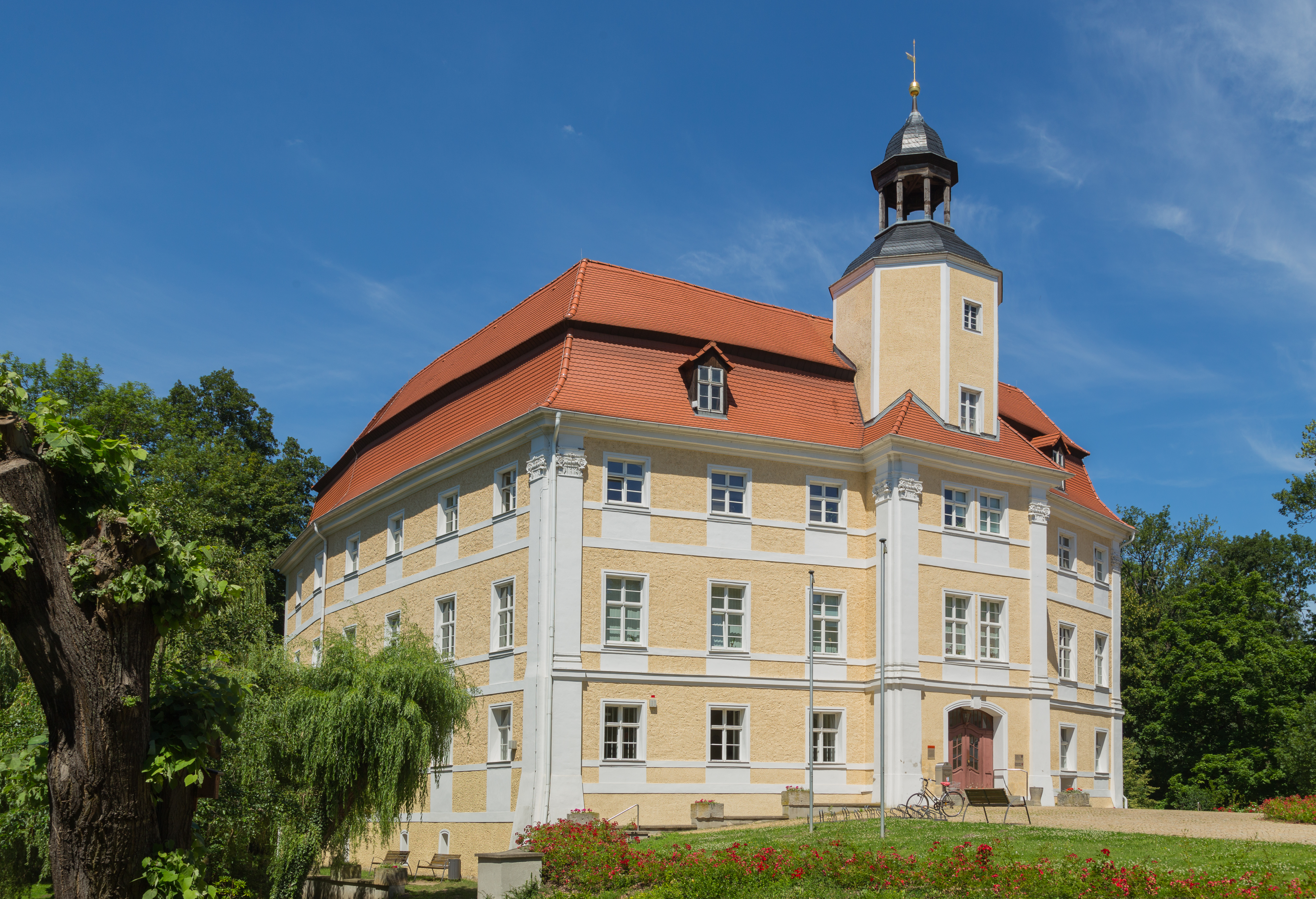 Vetschau Town Castle (Schloss Vetschau) in Vetschau/Spreewald, Landkreis Oberspreewald-Lausitz, Brandenburg, Germany. The Renaissance castle complex, dating back to 1540, today houses the administration departments for the town of Vetschau and is open to the public.